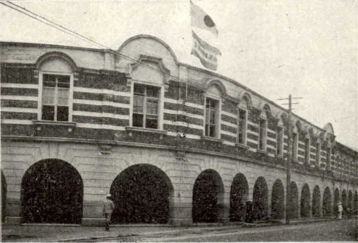 台灣日日新報社